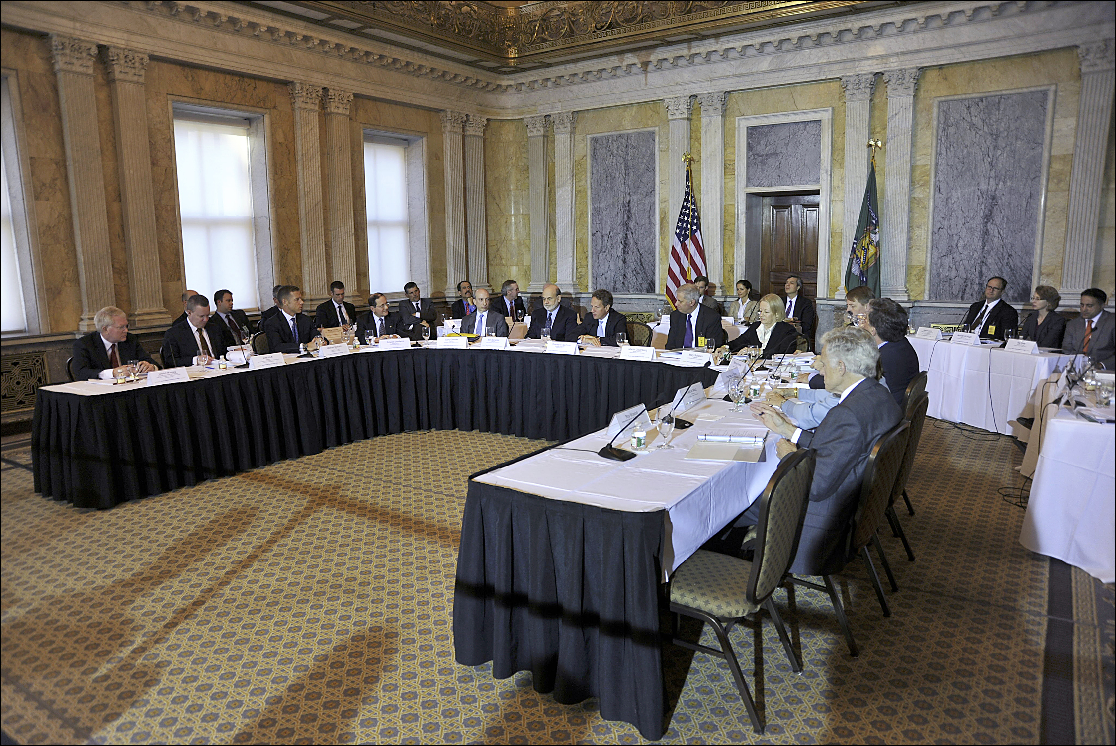 On November 13, 2012, the Financial Stability Oversight Council convened to vote on proposed recommendations for reform of money market mutual funds.